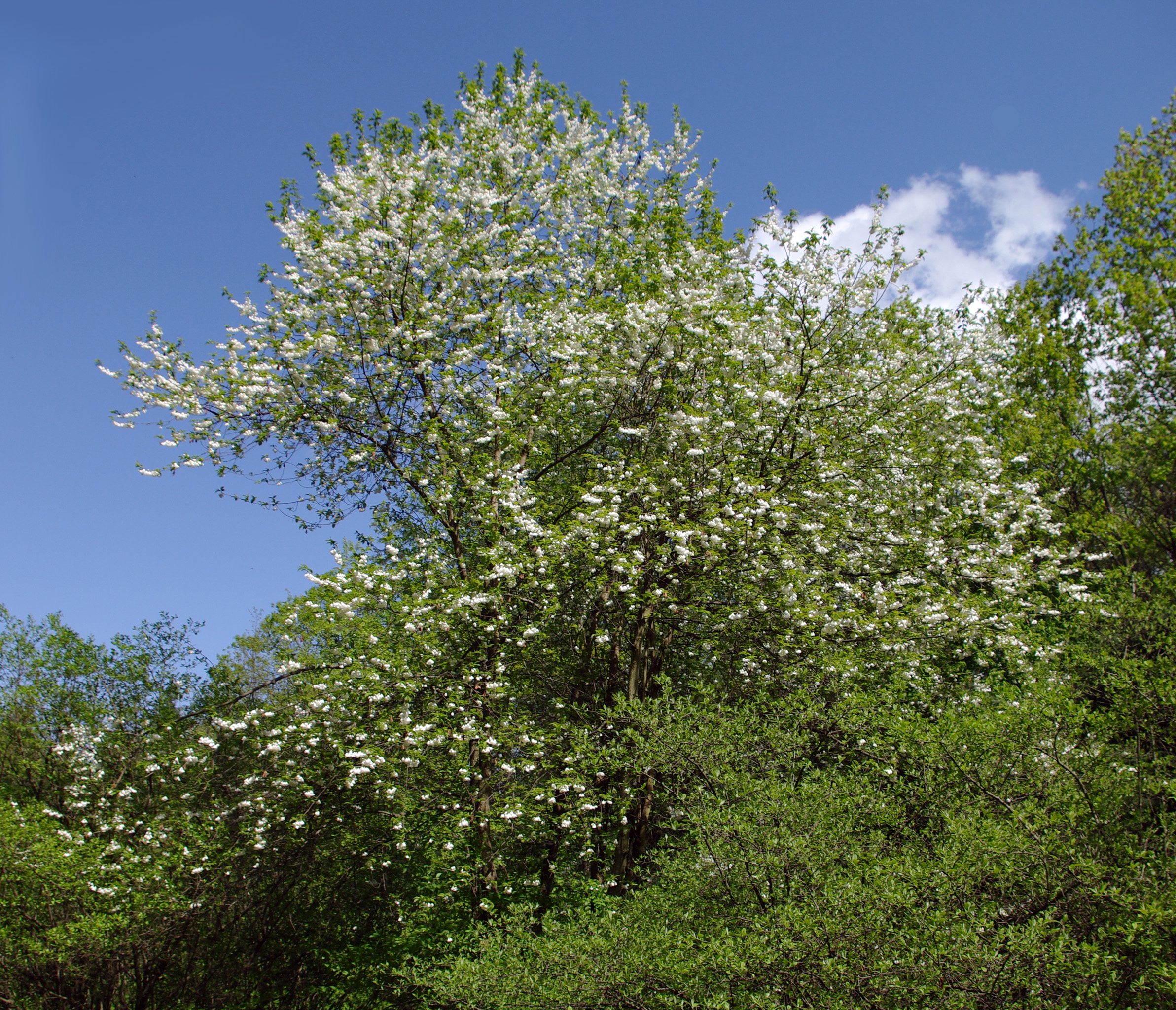 Mountain silverbell in Arboretum SGGW w Rogowie in Rogów, Poland